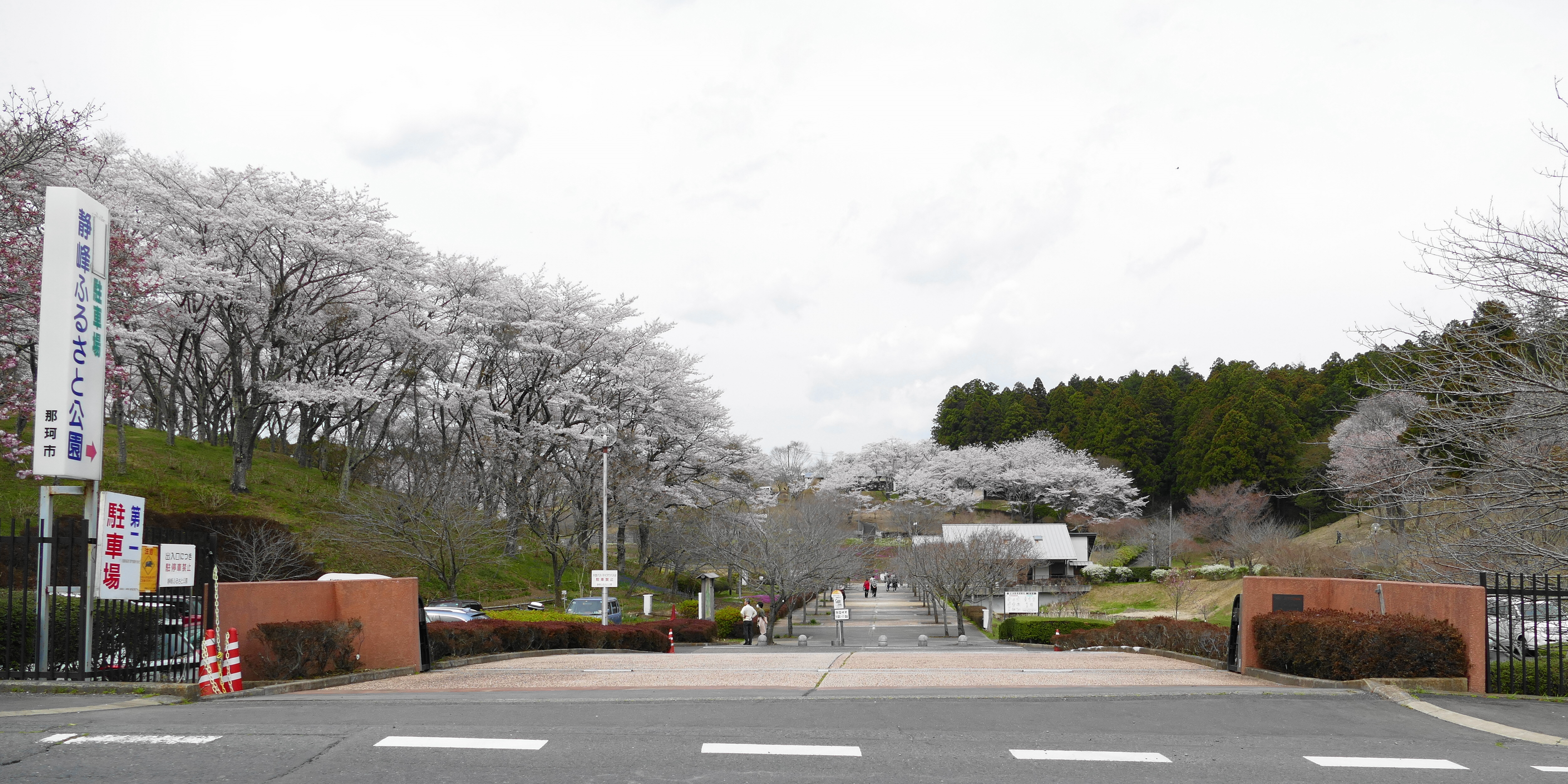 Entrance of the Shizumine Furusato Park(Japan's Top 100 famous place of cherry trees),Ibaraki prefecture,Japan